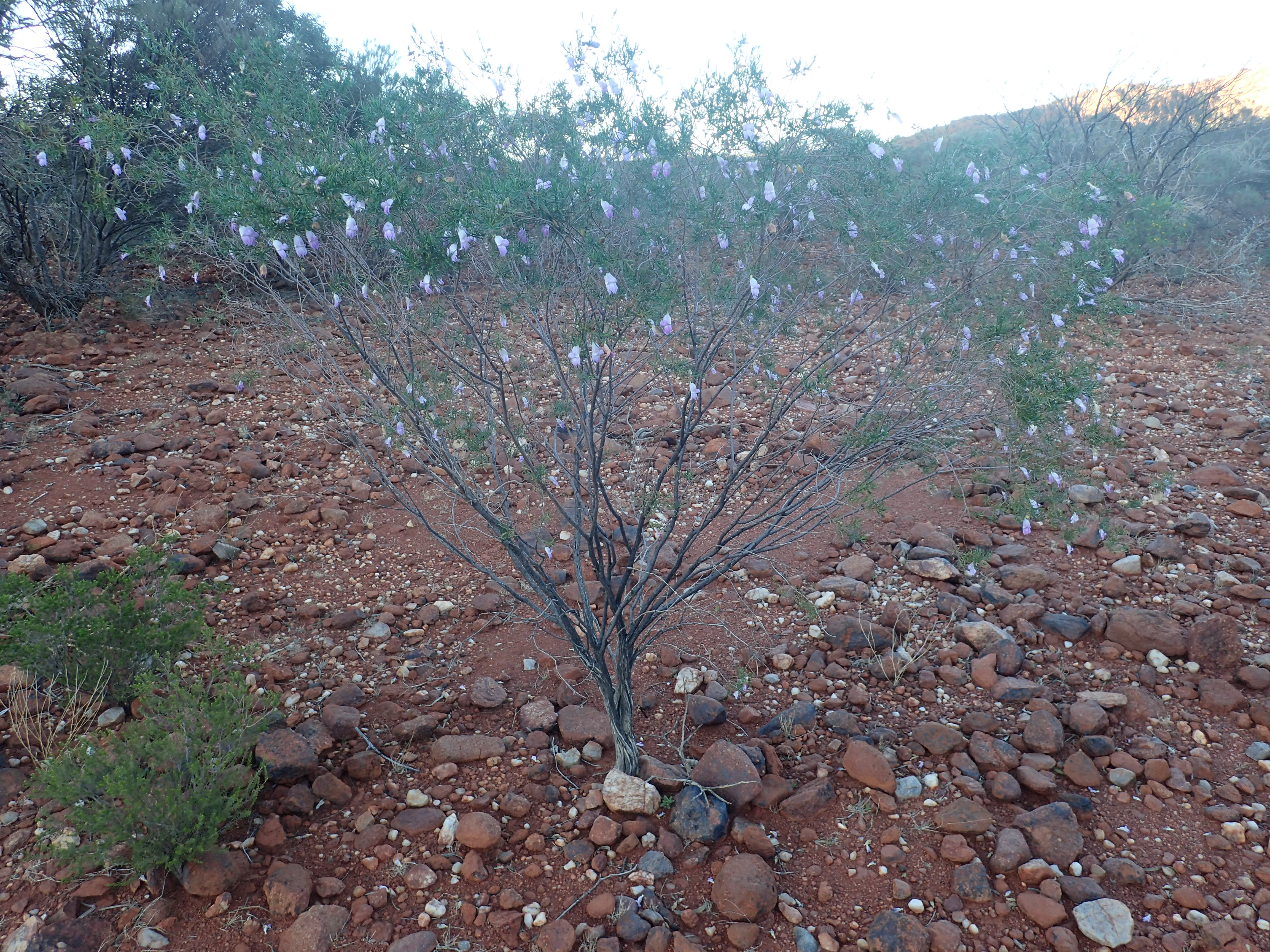 Eremophila glutinosa growing at "The Pound" near Mount Augustus